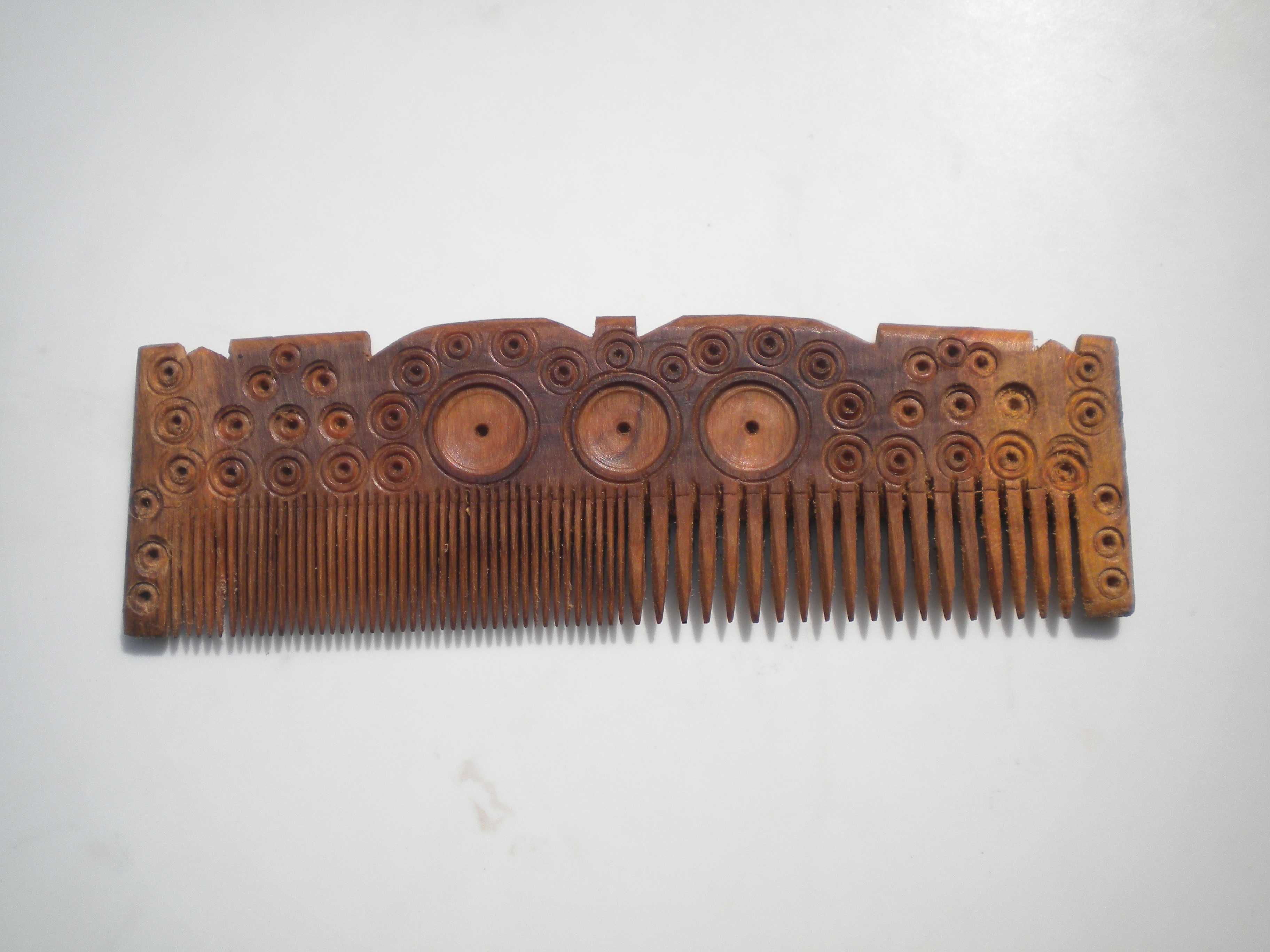 Punjabi Wooden comb made in Tonsa in Punjab Pakistan